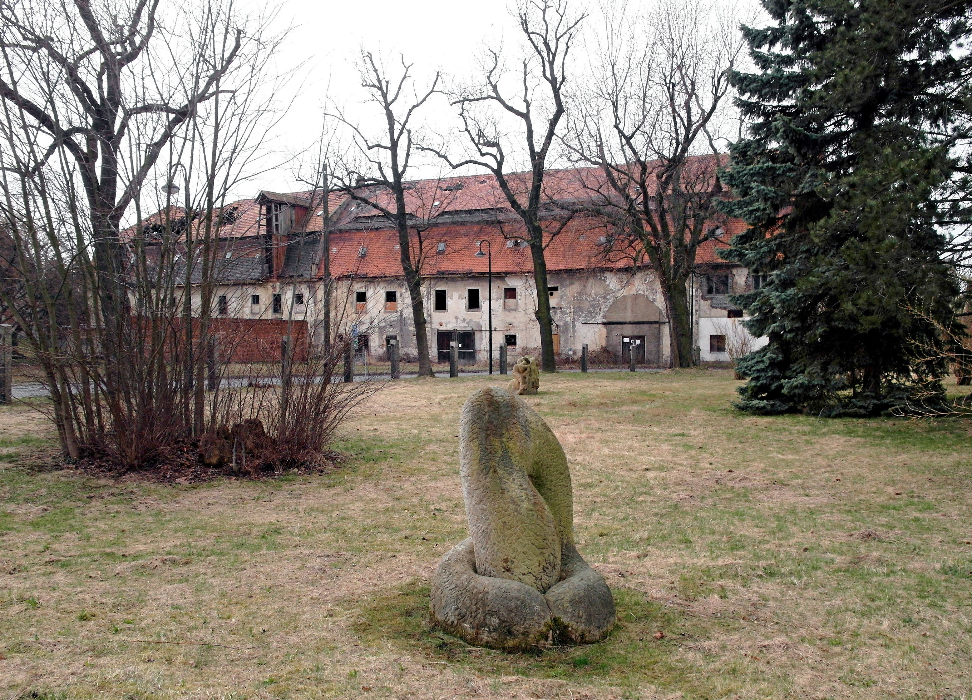 16.03.2017 02708 Glossen (Löbau): Rittergut, Wirtschaftsgebäude Hofseite (Westen). Während das im Bild nicht sichtbare Schloß aus der 1. Hälfte des 18. Jh. in gutem Zustand ist und bis 2015 als Kinderkurklinik genutzt worden war, verfallen die mächtigen Wirtschaftsgebäude am Gutshof. [SAM8482.JPG]20170316325DR.JPG(c)Blobelt